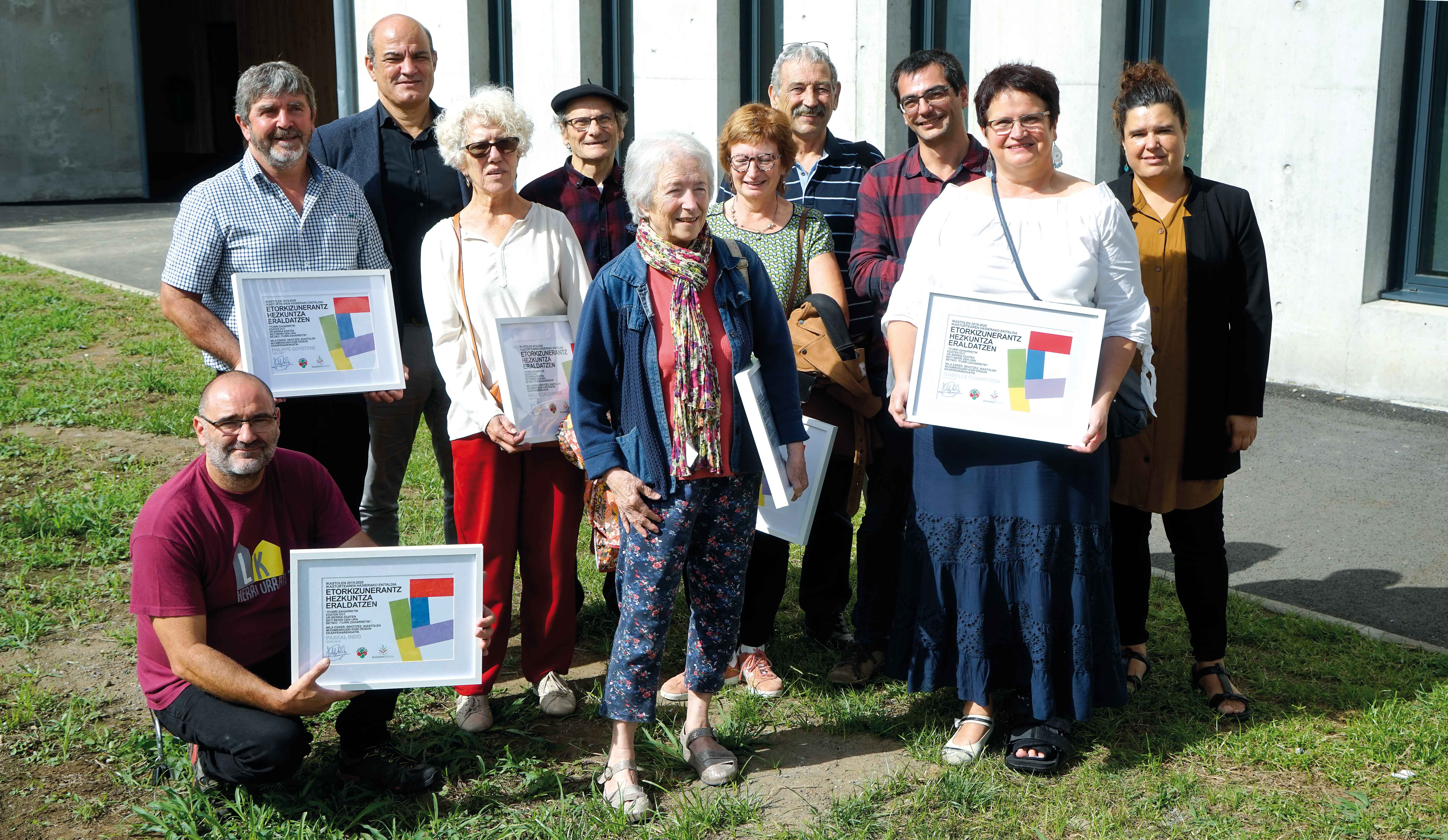 Tribute to the SEASKA lehendakaris at the opening ceremony held at the Beñat Etxepare Lyceum in Bayonne in 2019.